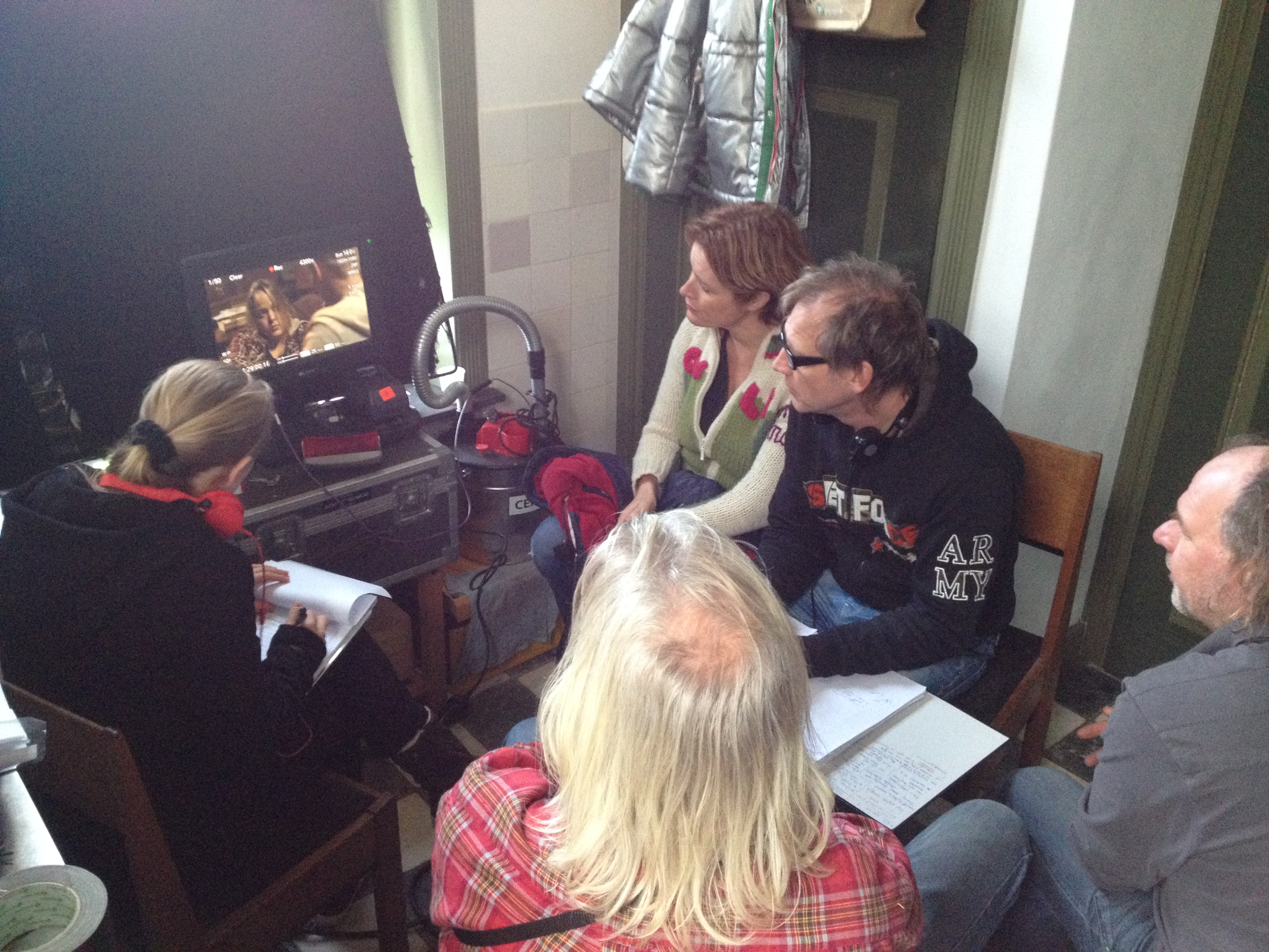 Steven de Jong en crew tijdens de productie van de speelfilm Stuk!